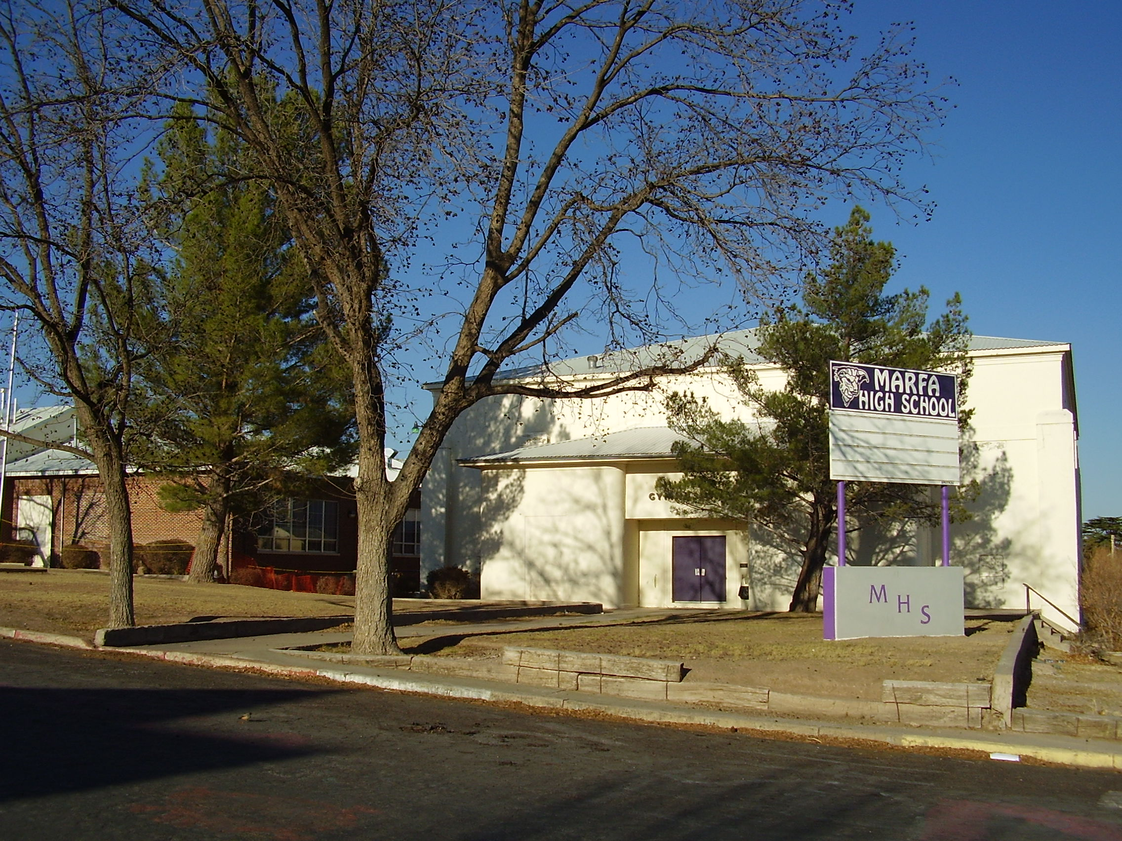 Marfa High School Gym with the actual high school to the left (the red bricked building).